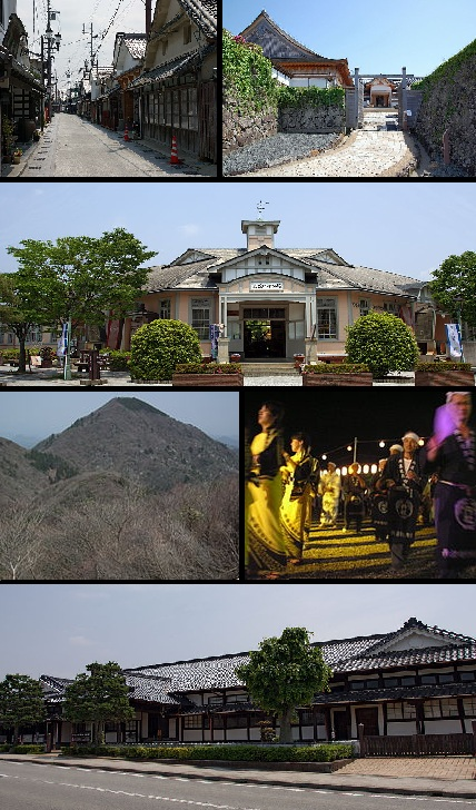 Sasayama montage